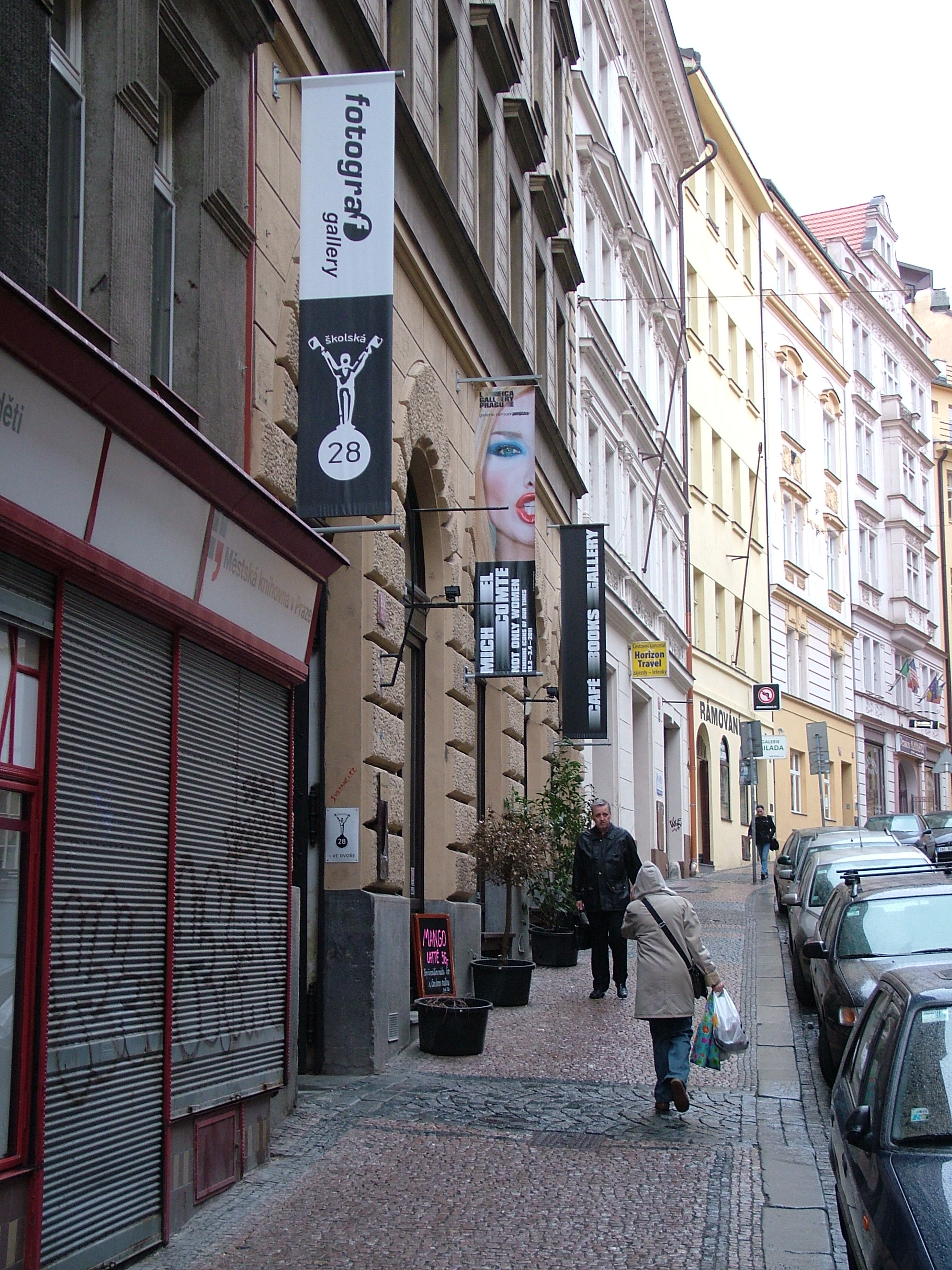 Leica Gallery Praha